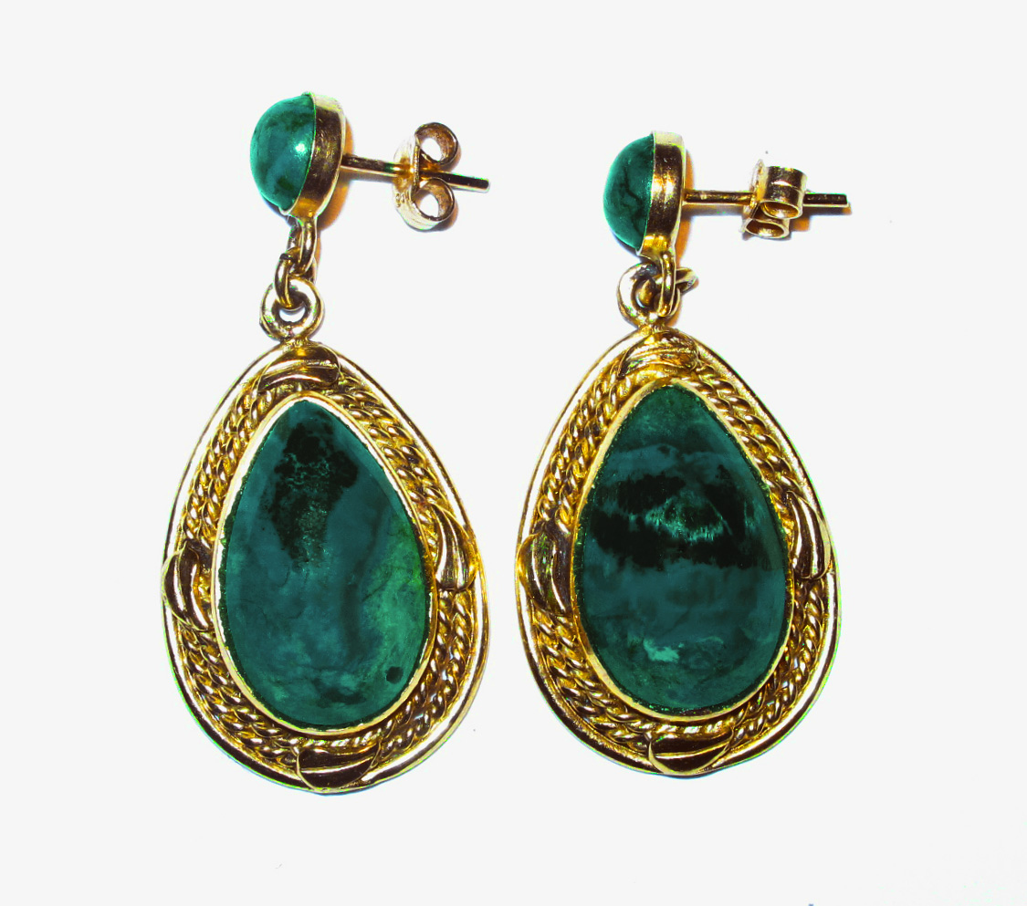 Earrings made in Israel of Eilat stone and gold-washed sterling silver.